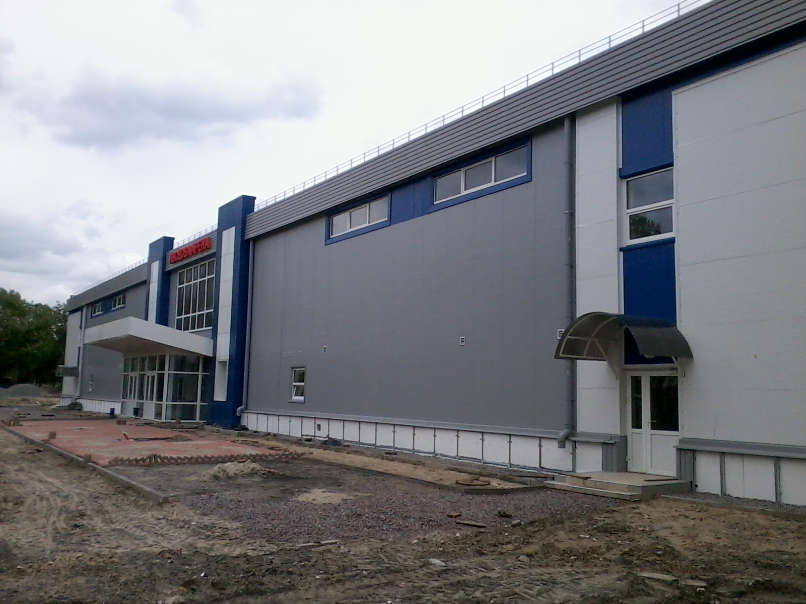 Ice rink on Mista Shalett St. 6 on the final stage of building.